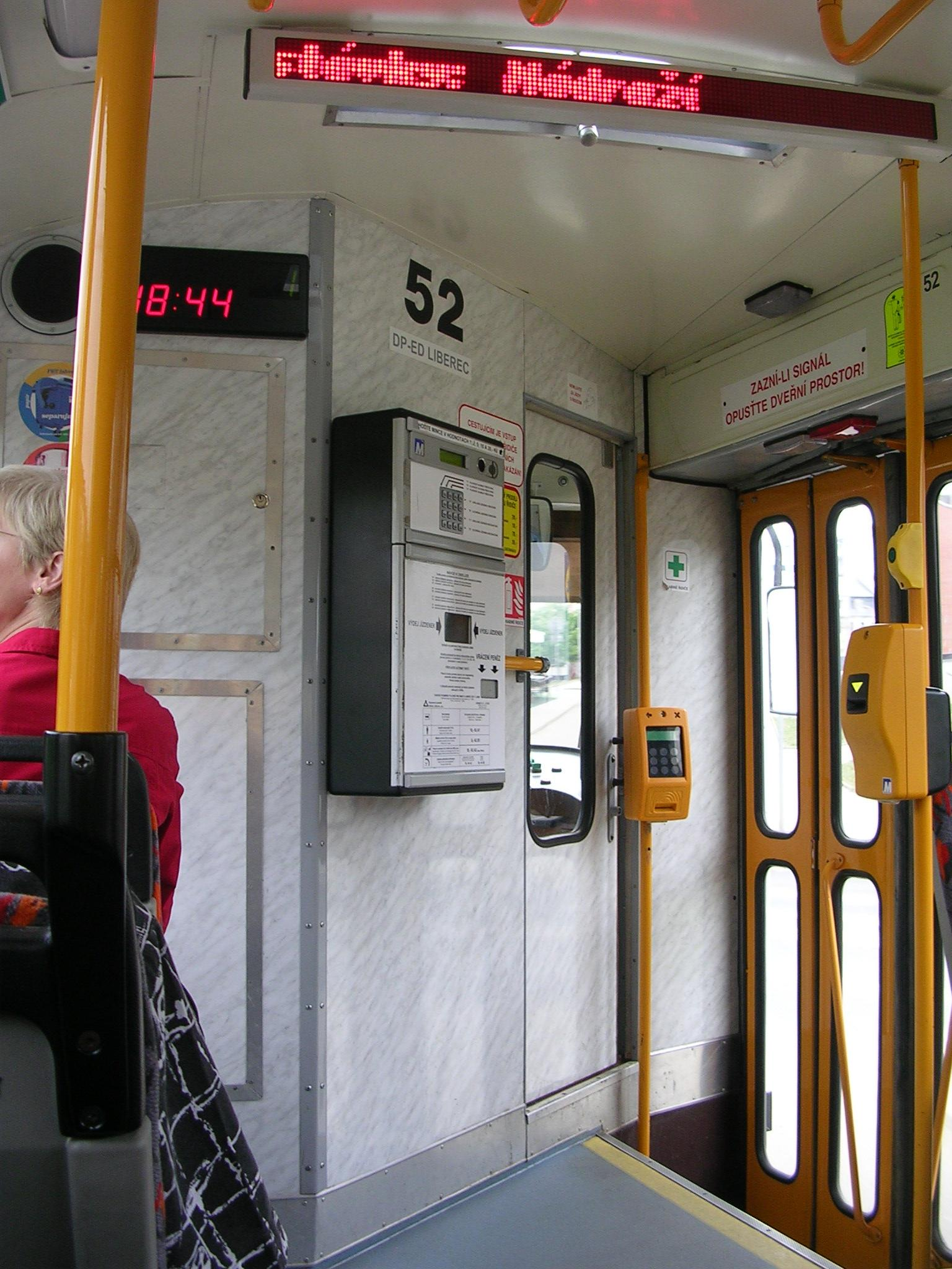 Tramway line between Liberec and Jablonec. The Czech Republic.